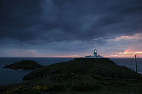 Strumble head lighthouse